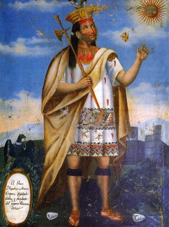 Painting of Manco Cápac 18th century Cusco School